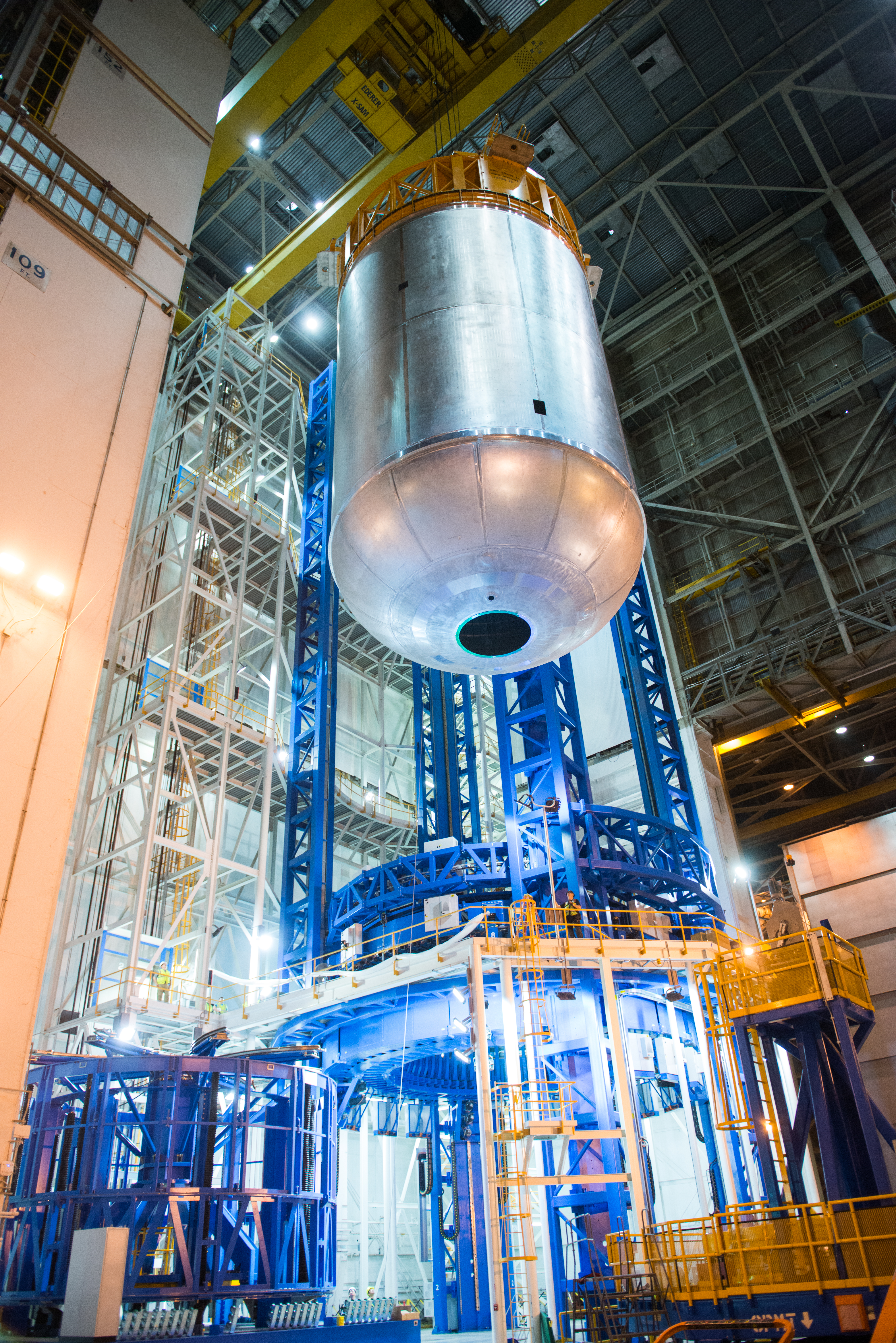 Precision Meets Progress in Welding on SLS Liquid Oxygen Tank Hardware A liquid oxygen tank confidence article for NASA's new rocket, the Space Launch System, completes final welding on the Vertical Assembly Center at Michoud Assembly Facility in New Orleans. This is the first glimpse of what one of the two tanks will look like that make up the SLS core stage. Towering more than 200 feet tall with a diameter of 27.6 feet, the core stage will store cryogenic liquid hydrogen and liquid oxygen that will feed the vehicle’s RS-25 engines. Confidence hardware verifies weld procedures are working as planned and tooling-to-hardware interfaces are correct. It will also be used in developing the application process for the thermal protection system, which is the insulation foam that gives the tank its orange color. The liquid oxygen tank is the smaller of the two tanks in the core stage. Components of the liquid hydrogen tank confidence article completed welding in February at Michoud. All welding for the SLS core stage for the Block I configuration of the rocket -- including confidence, qualification and flight hardware -- will be done this summer in preparation for its first flight with NASA's Orion spacecraft in 2018.